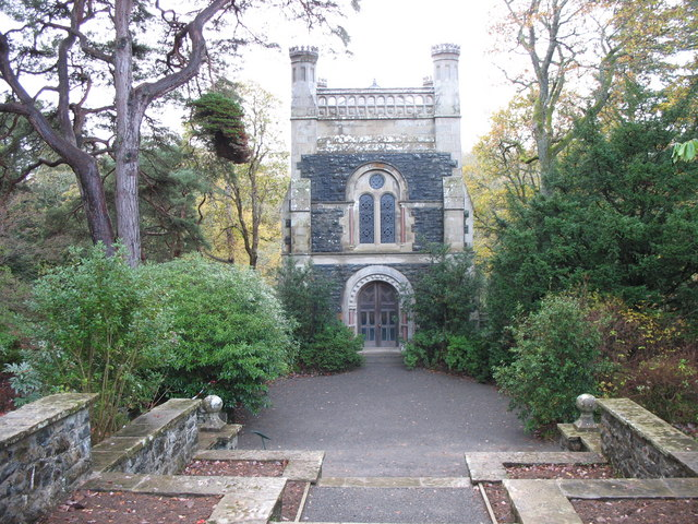 Bodnant Mausoleum Known as "The Poem" this family mausoleum in the grounds of Bodnant Hall was built in 1882 by Henry Davis Pochin